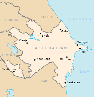 The map of Azerbaijan demonstrating its main cities and neighboring countries.